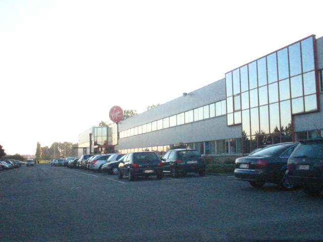 Virgin Express Head-Quarter at Brussels Airport